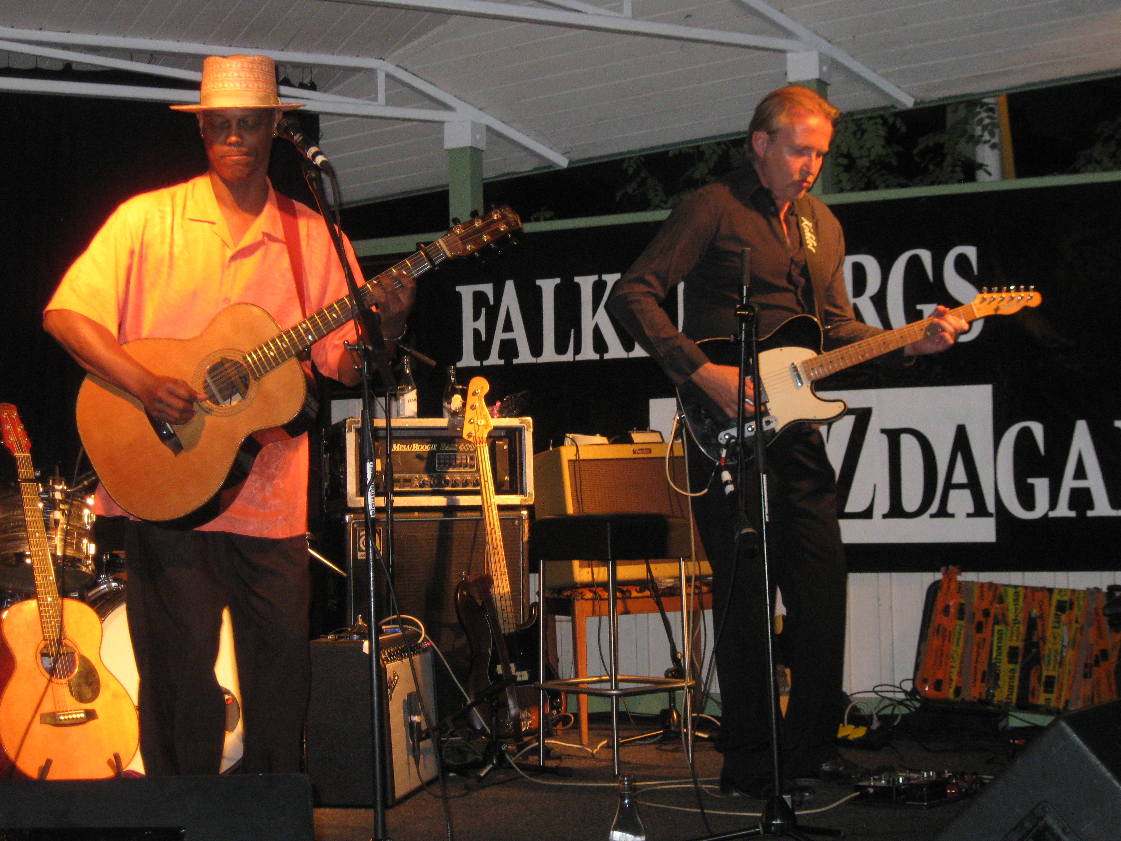 Eric Bibb and Staffan Astner at Falkenbergs Jazzdagar, Falkenberg, Sweden.